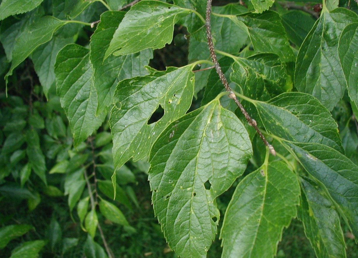 Celtis occidentalis: Leaves and fruit (partly hidden)